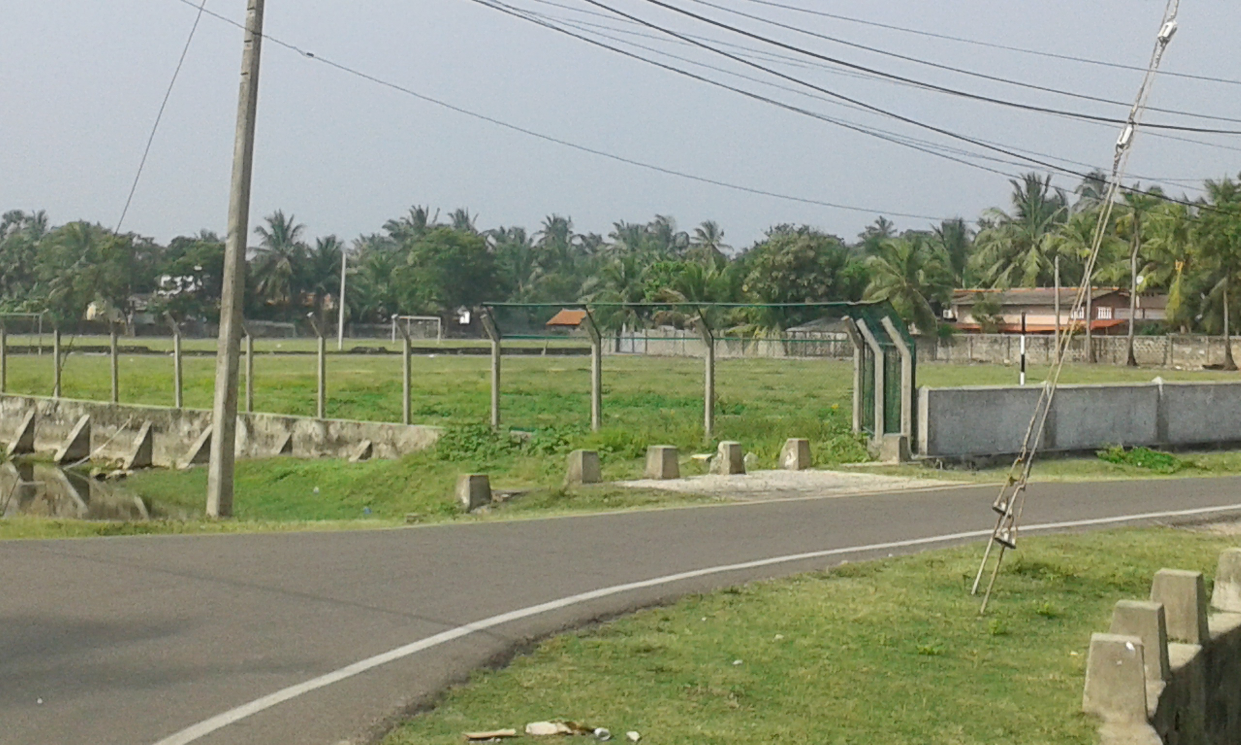 ஈச்சமொட்டை விளையாட்டு மைதானம்